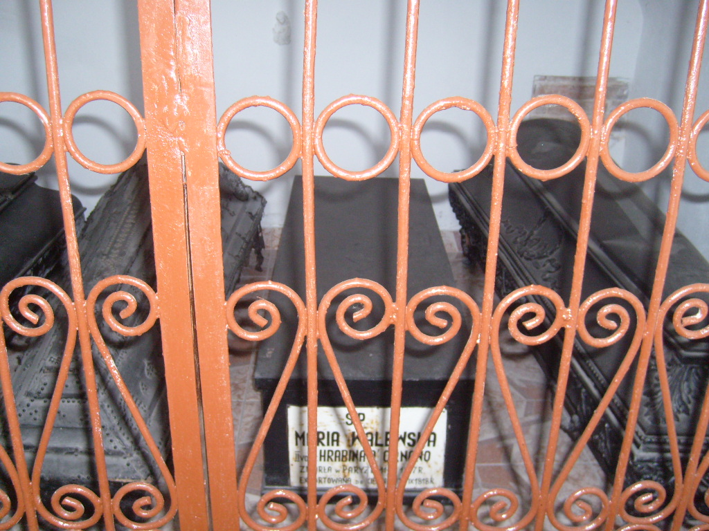 Maria Walewska's coffin, Kiernozia, Poland